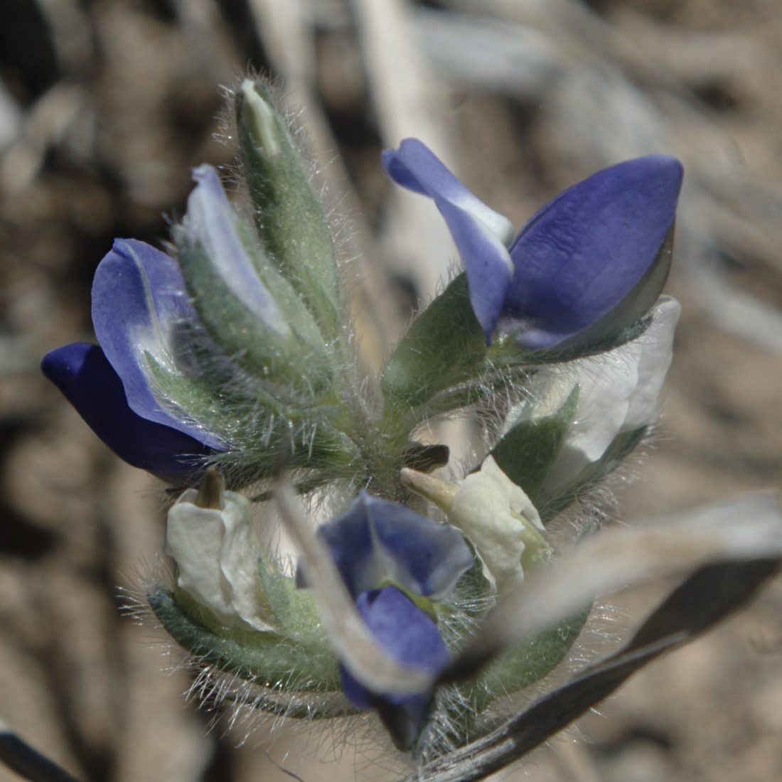 Flowers of Lupinus kingii, King's Lupin, Santa Fe Botanical Garden Ortiz Mountains Preserve. Thanks to Chick Keller and Al Schneider for ID.